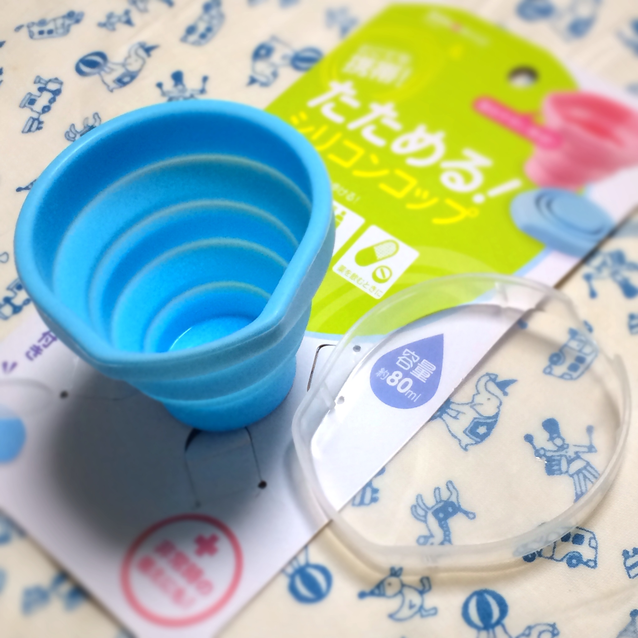 iPhoneから送信